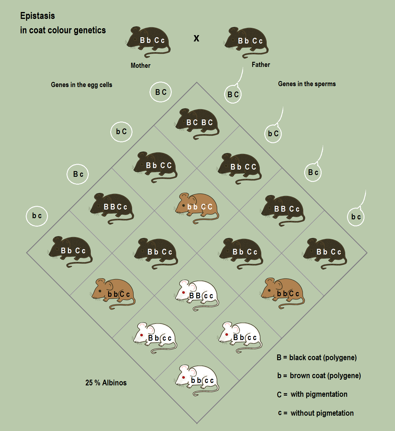 Example of epistasis in coat colour genetics: If no pigments can be produced the other coat colour genes have no effect on gene expression, no matter if they would be dominant or recessive, no matter if the individual is homozygous.